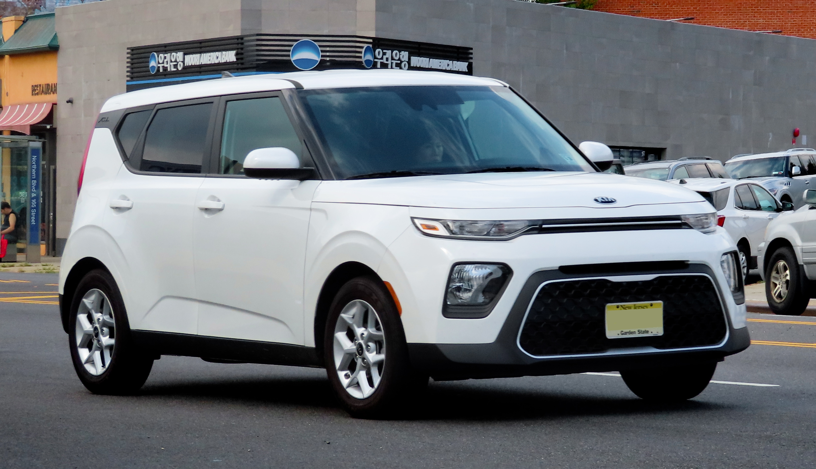 A 2020 Kia Soul S photographed in Flushing, Queens, New York, USA